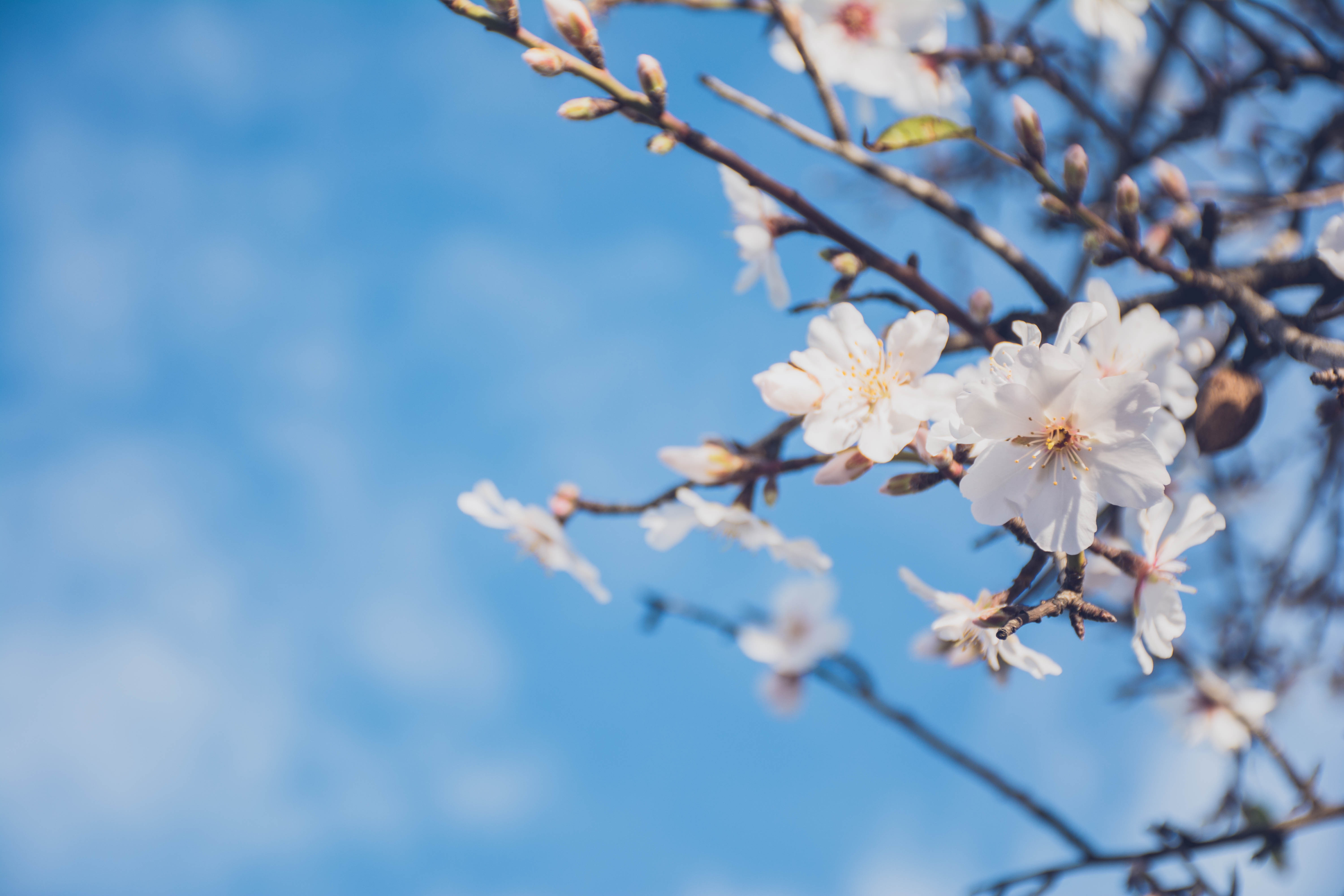 Faro District, Portugal